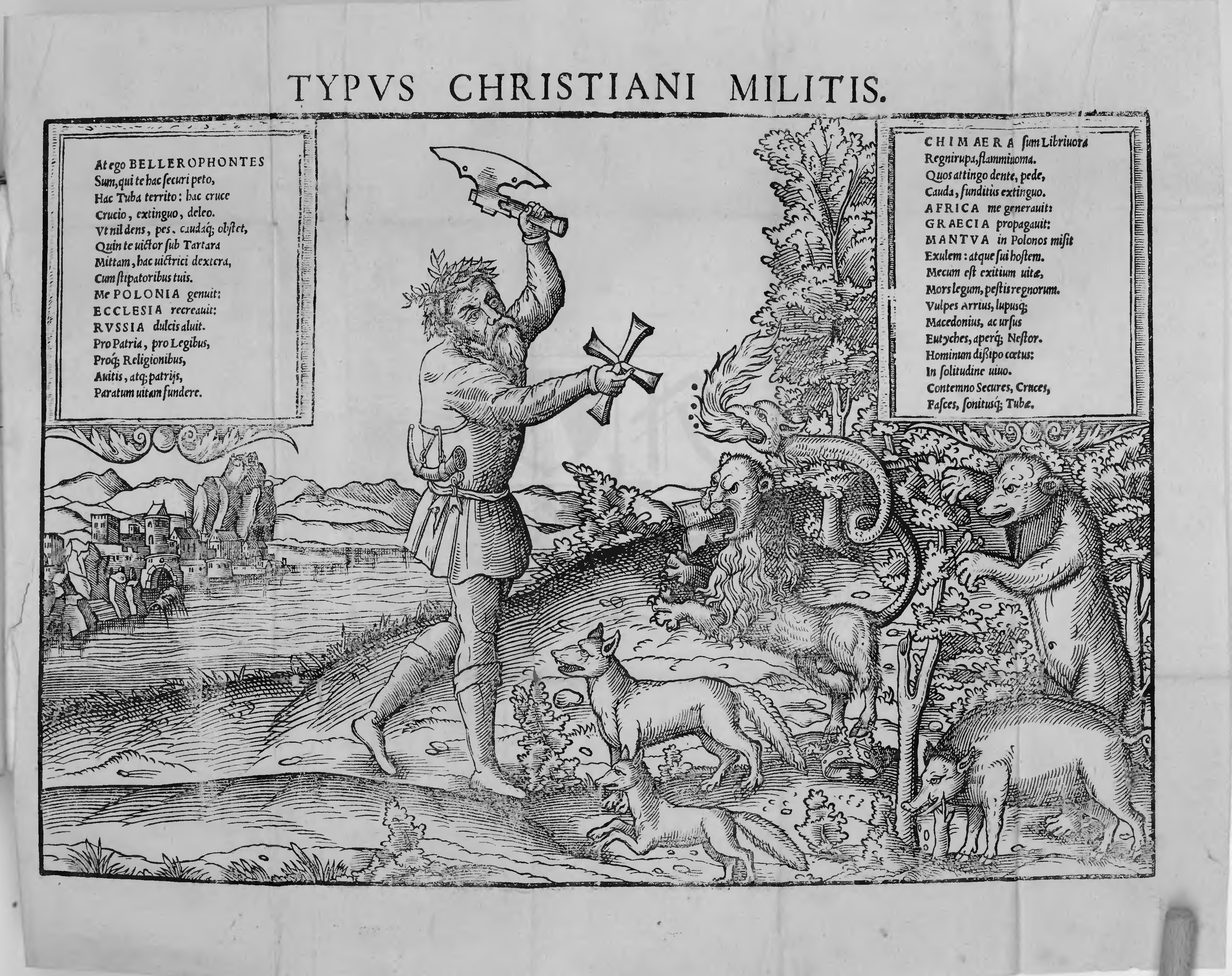 From Chimaera, edition Koeln, 1563 by Stanislaw Orzechowski